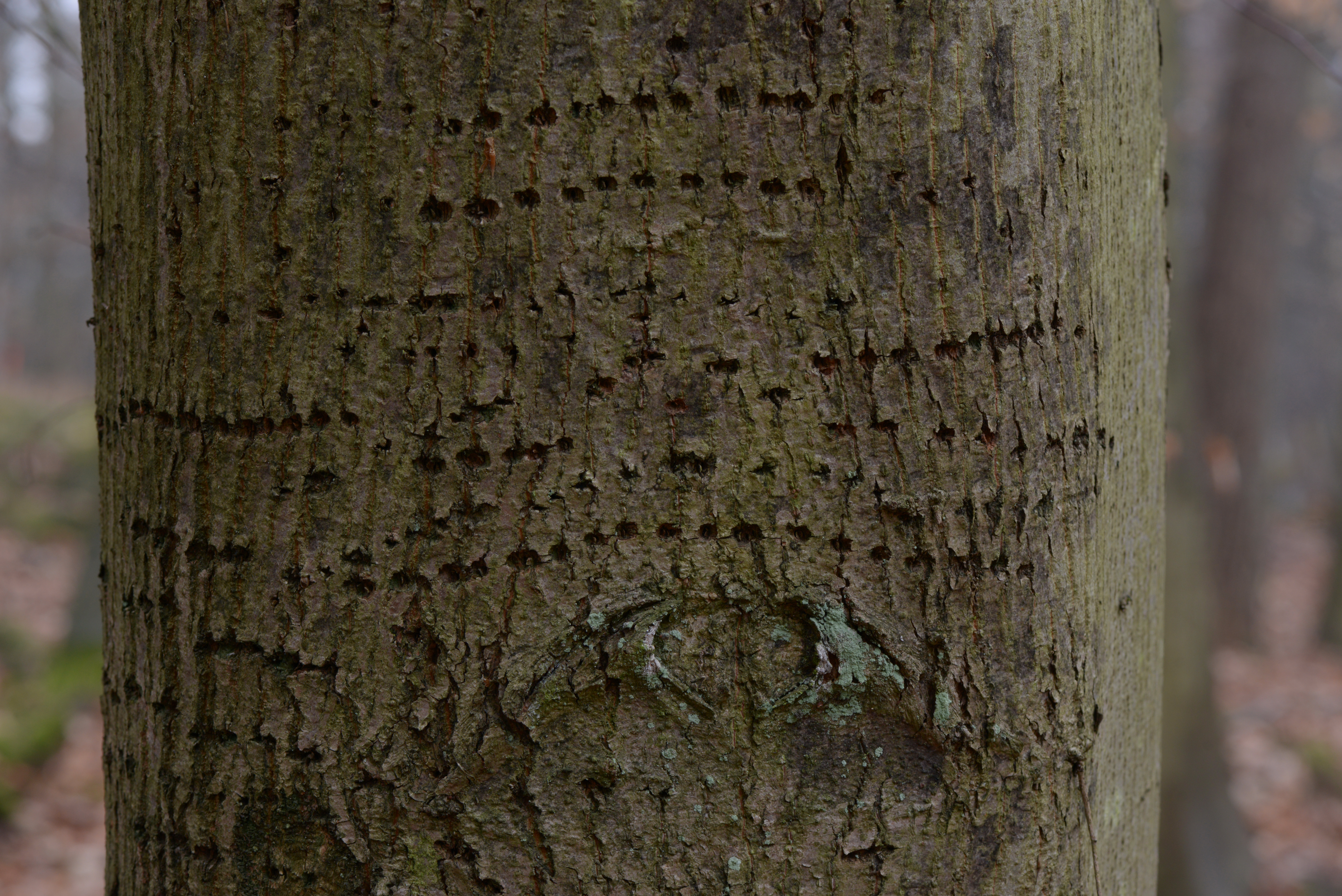 Drill holes made by a woodpecker (spotted woodpecker or middle-spotted woodpecker), Kirkel, Saarpfalz-Kreis, Saarland, Germany